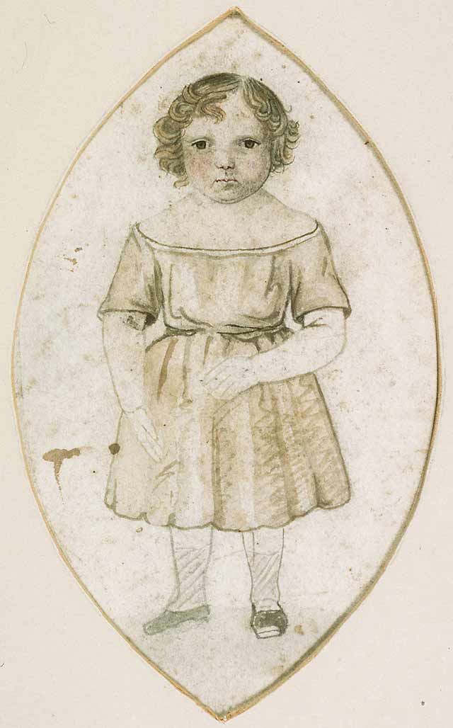 A painting from the Framed Works of Art collection at the National Library of wales. Portrait of Robert Owen Ellis (1813-1861)